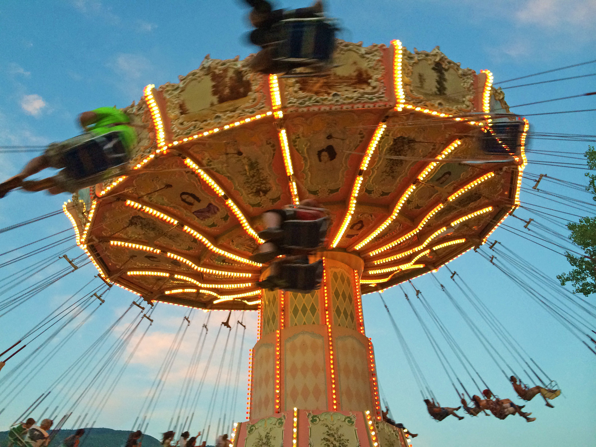 Turn of the Century (a Zierer Wave Swinger) ride at Lagoon amusement park in Farmington, Utah, USA. This ride was installed as part of Lagoon's centennial celebration in 1987.